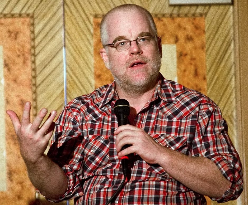 Philip Seymour Hoffman at a Hudson Union Society event in September 2010.